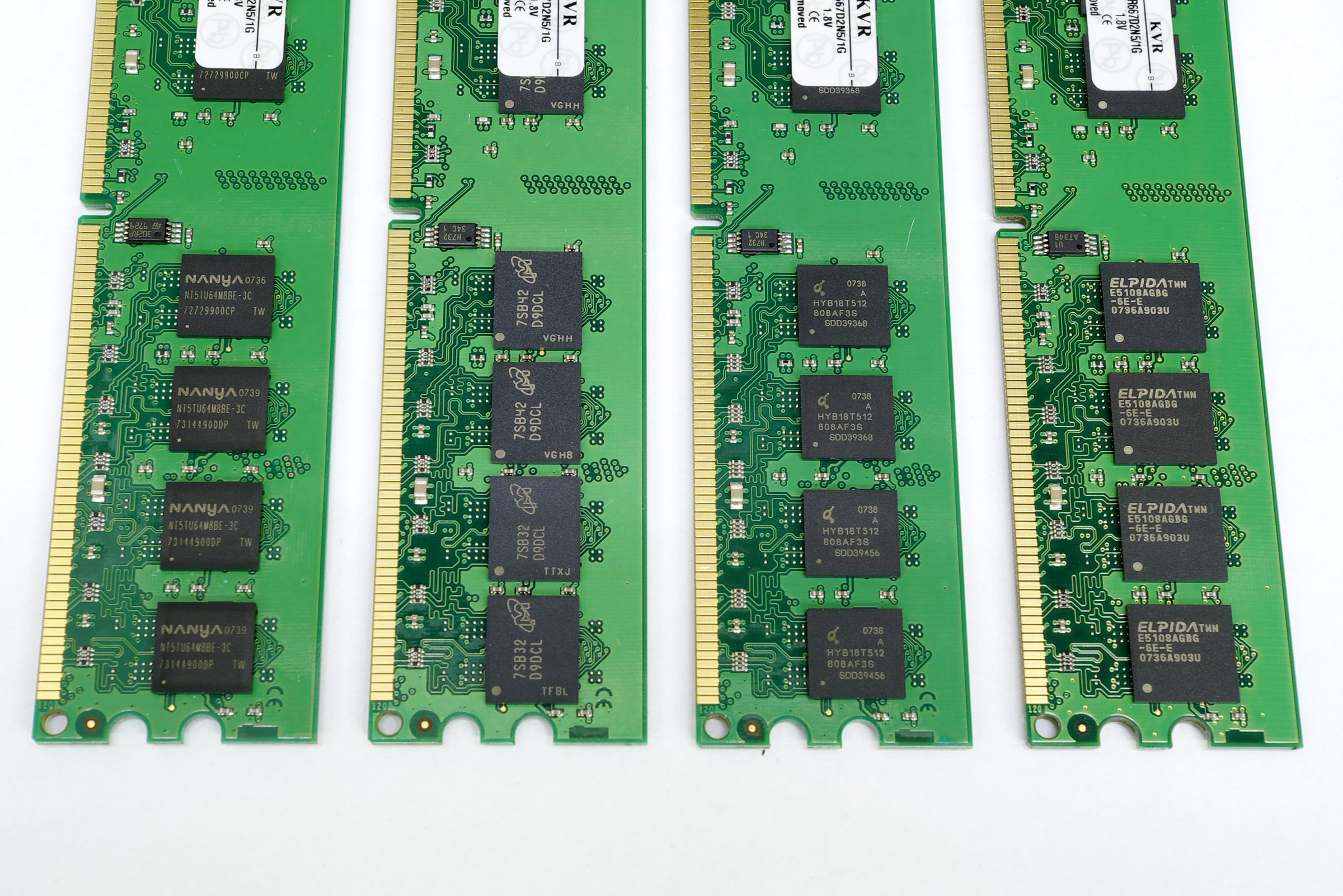 Kingston KVR667D2N5/1G. . DDR2 RAM with identical labelling, but different assembly